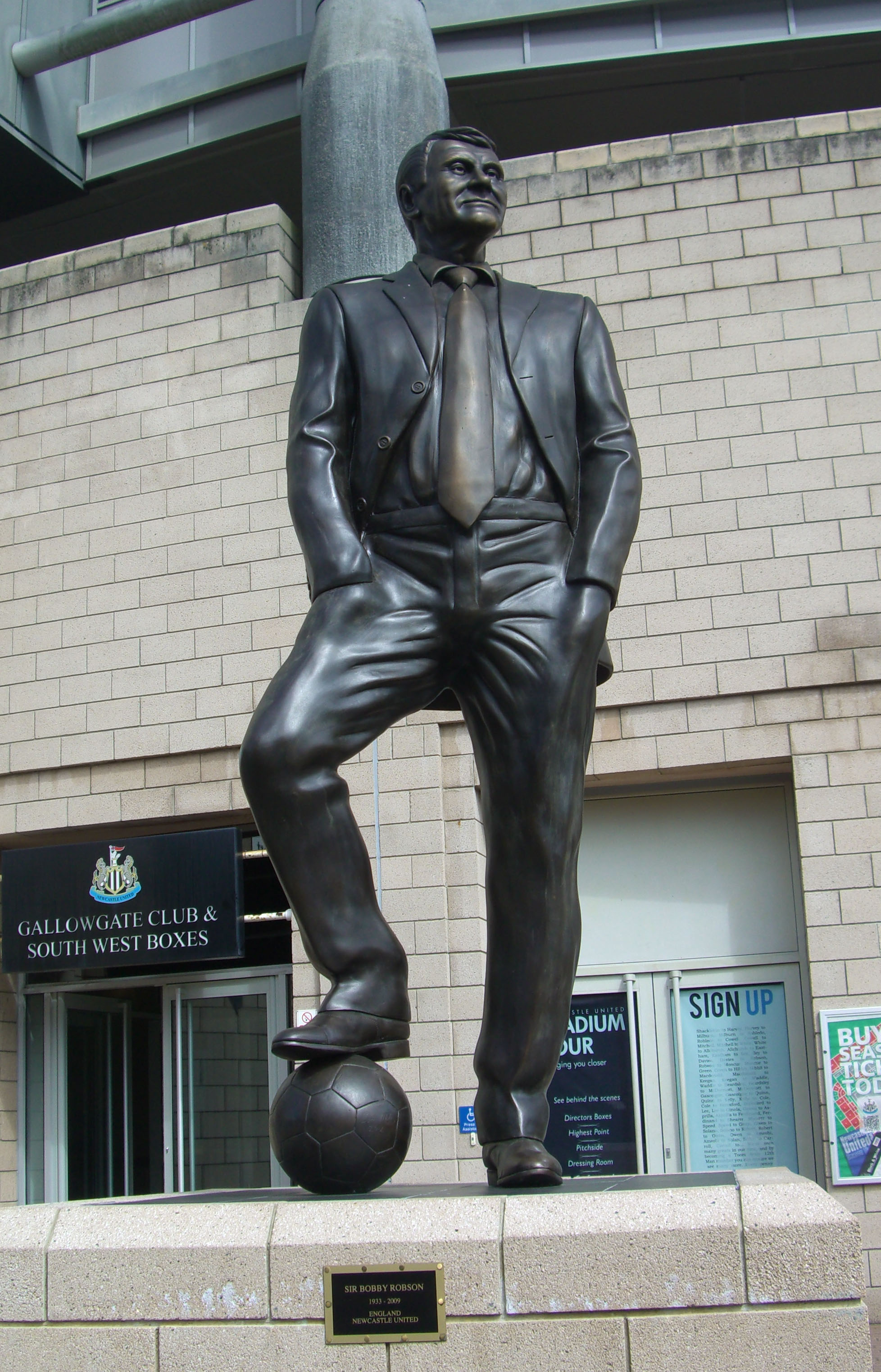 The statue of Sir Bobby Robson outside Newcastle United F.C.'s home stadium St James' Park in Newcastle upon Tyne, England. It stands outside the south west corner of the ground, facing outwards. Robson was manager of the club from 1999 until 2004, his last managerial appointment. Sculpted by Tom Maley, it was unveiled on 6 May 2012 nearly three years after his death in on 31 July 2009. See the category for full details.